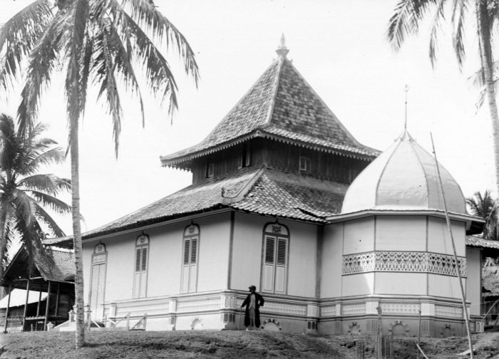 Mosque